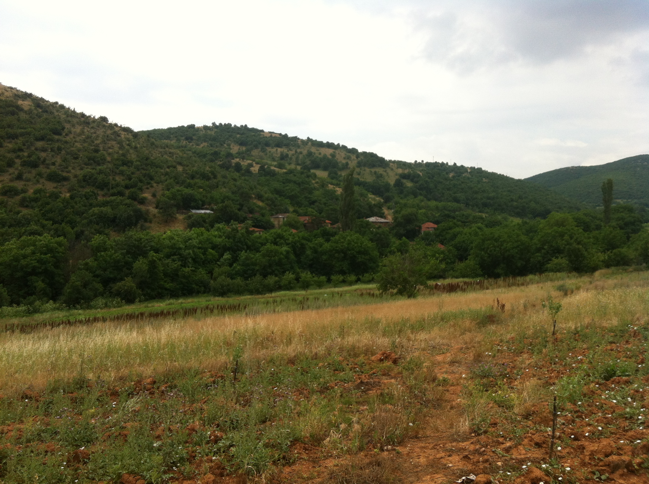 village of Beleštevica, near Veles, Macedonia